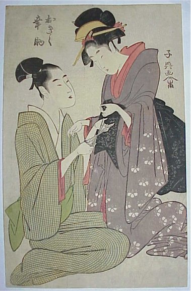 Eishosai CHOKI (Fl. c 1756-1808) : The lovers Okiku and Yosuke play cat’s cradle. ( A children’s game in which two players alternately take from each other’s fingers an intertwined cord so as always to produce a symmetrical figure.)